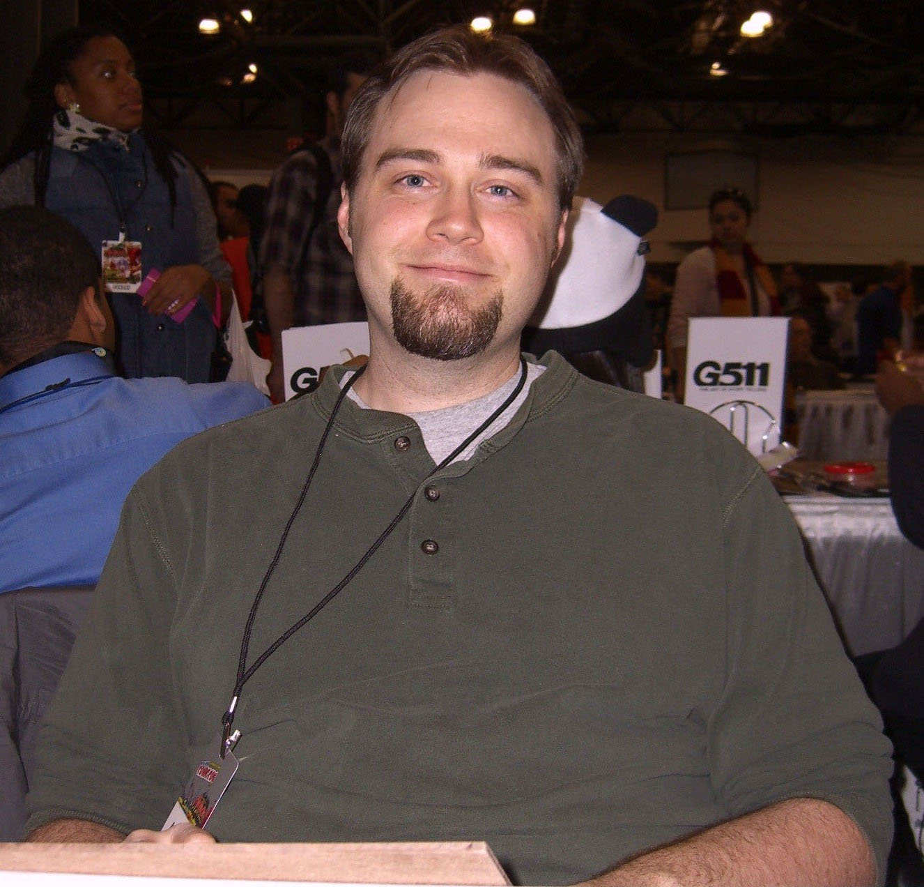 Comic book creator Patrick Scherberger, at the New York Comic Convention in Manhattan, October 10, 2010. Photo by Luigi Novi. This photo may be used, modified and published for any purpose, only if a easily visible credit to the photographer is placed near the photo in each instance in which it is used. (See licensing information below.) Publication of this photo without this proper attribution constitute copyright infringement. For more information on my photos, you can contact me here.